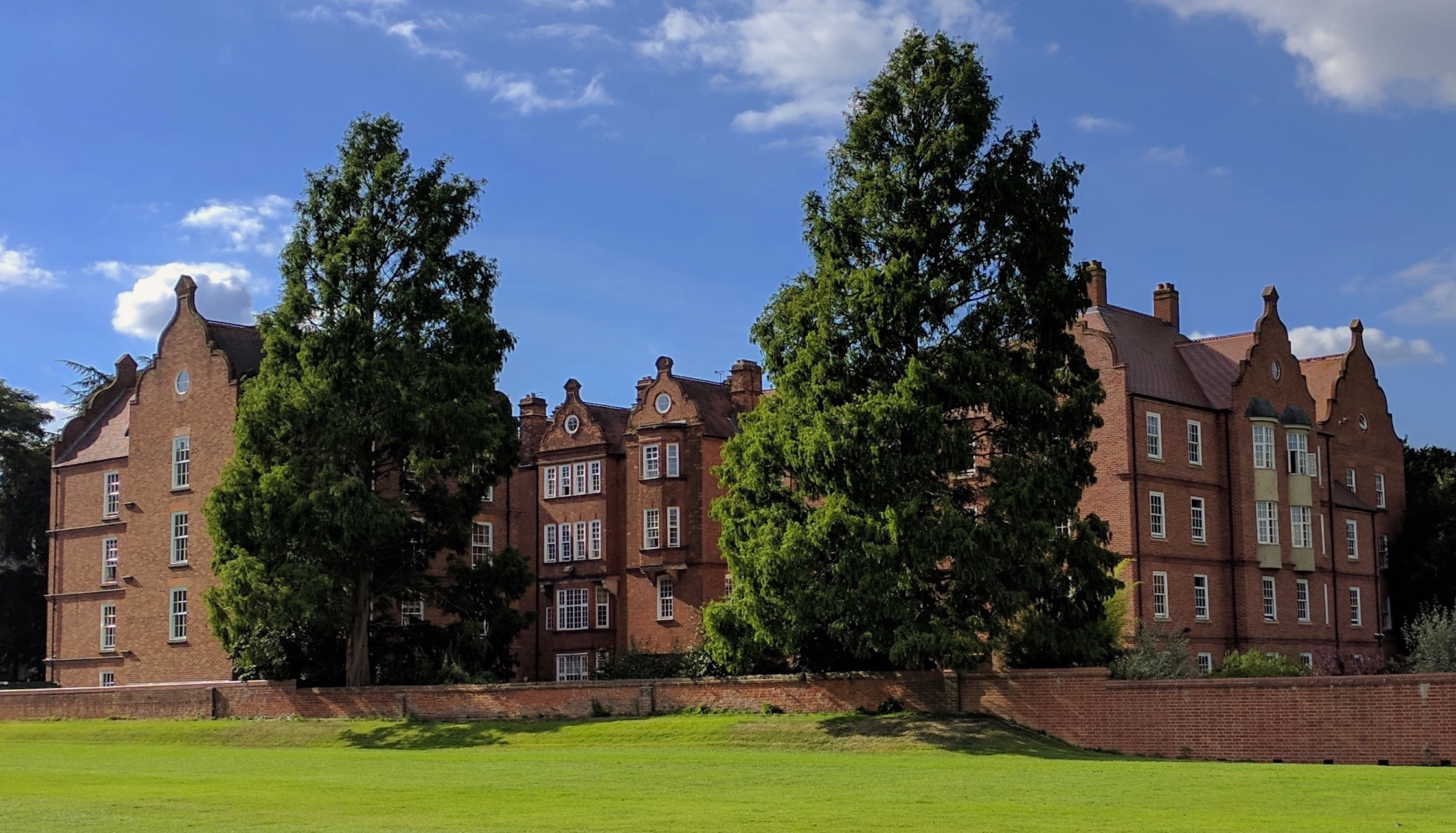 Linacre College Oxford, taken from New College playing fields